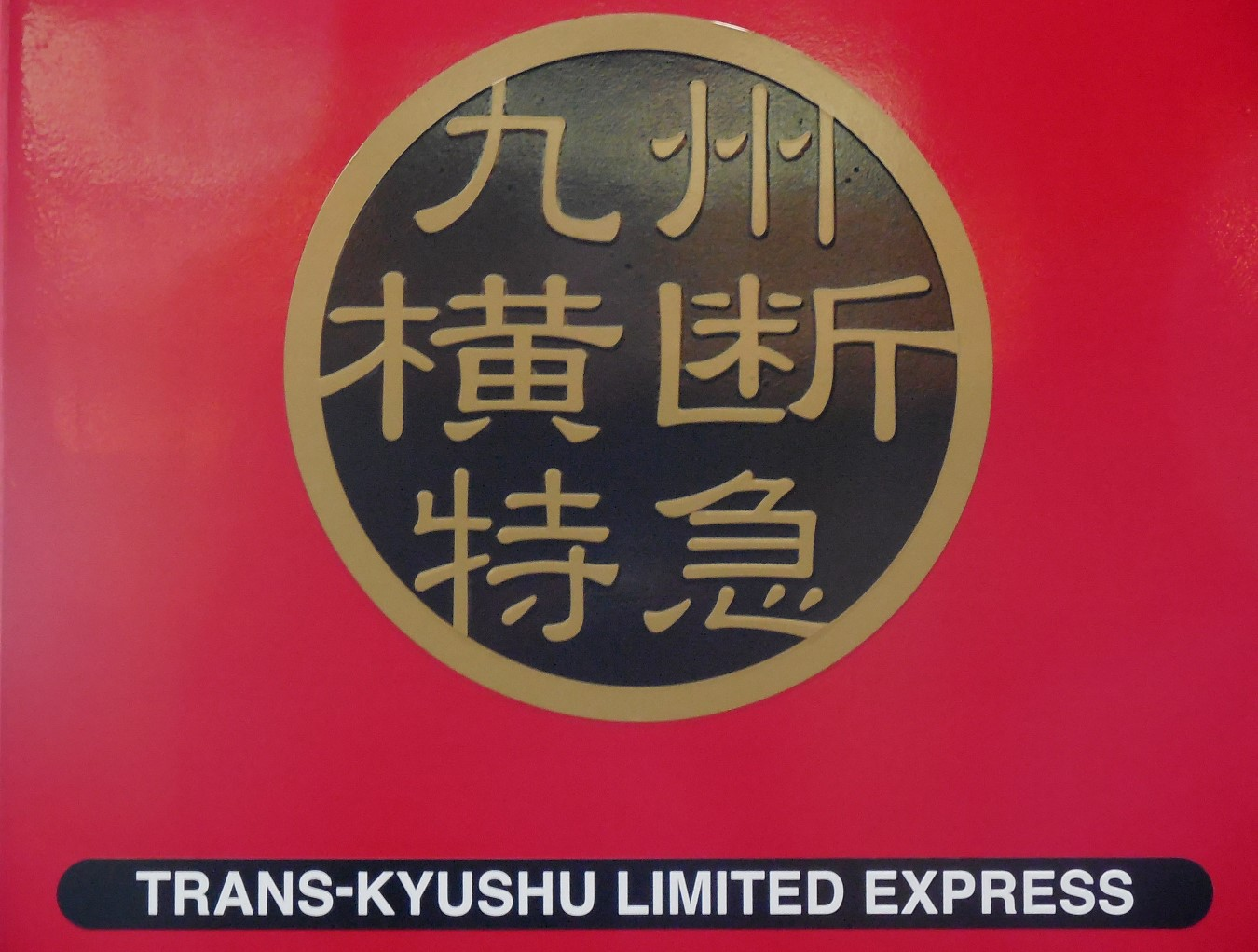 Trans Kyushu Limites xpress label